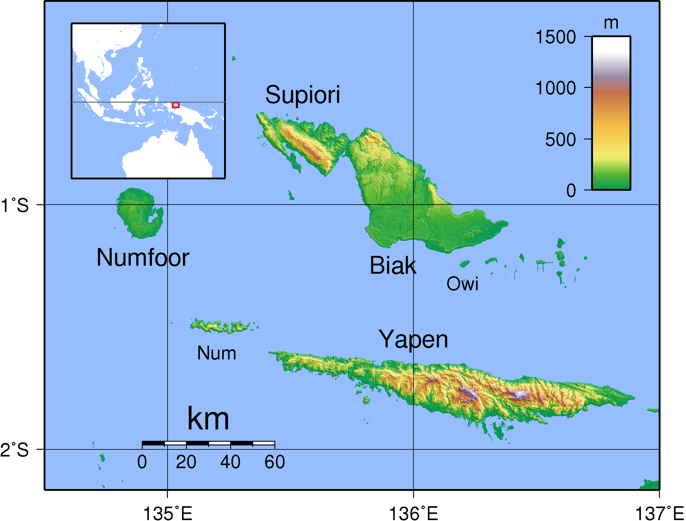 Topographical map of Schouten Islands in Indonesia. Created with GMT from publicly released SRTM data.